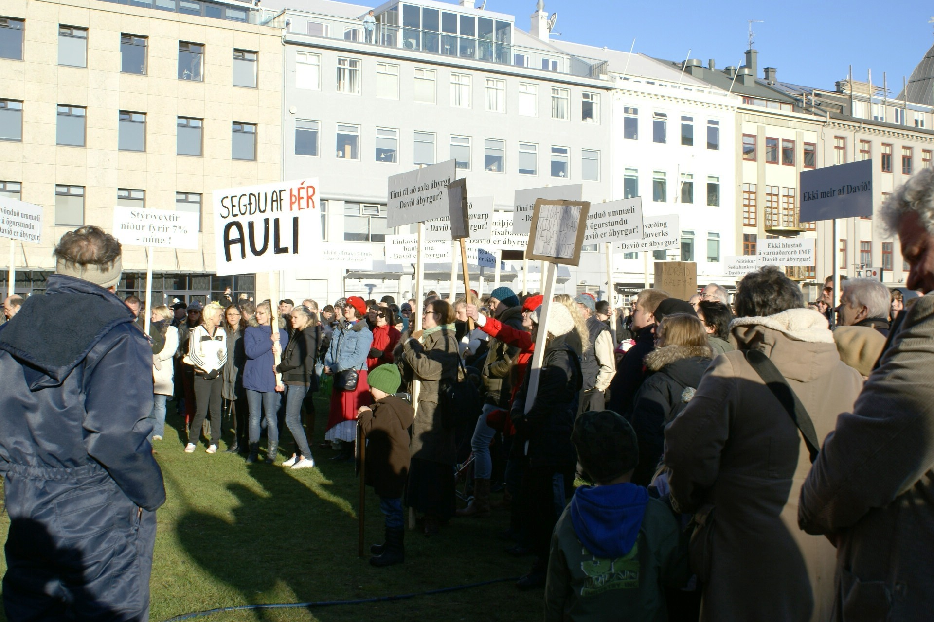 Week 2. Protesters at Austurvöllur. The Kitchenware-Revolution in Iceland was organize by Hördur Torfason and "Raddir Fólksins". It started in the wake of the collapse of the banking system followed be the decimation of Icelandic economy in the beginning of October 2008. It resulted in the resignation of Geir H. Haarde and his cabinet on January 26. 2009. The protest meetings were held every Saturday at the Austurvöllur square in front of Alþingishús - the Icelandic parliament house. The first meeting (week 1) was dated Saturday 11. October 2008. The 16th meeting dated January 24. 2009